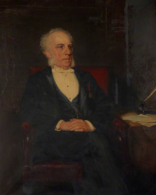 Portrait of Bouverie Francis Primrose (1813–1898), Scottish landowner and official.